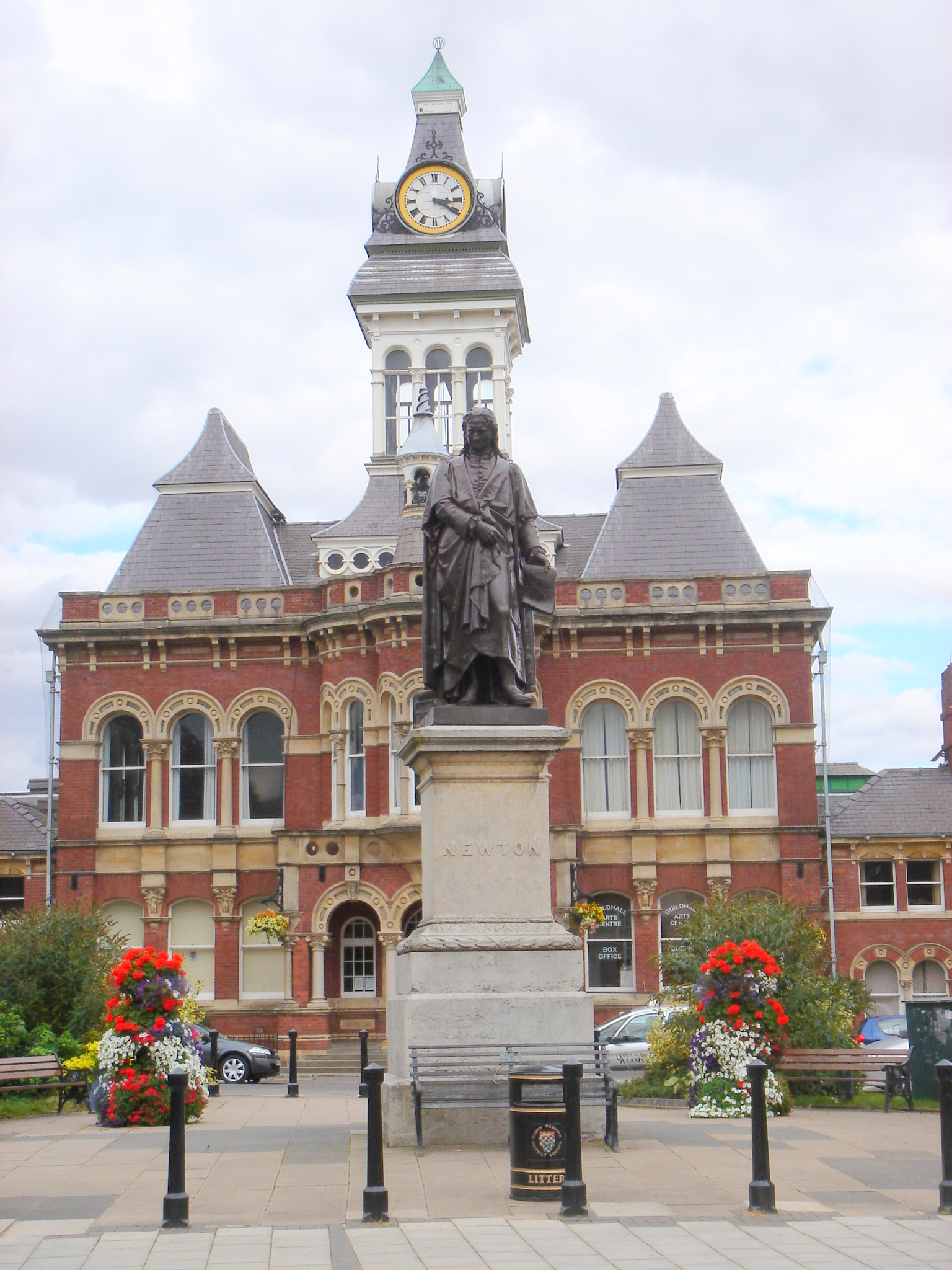 Sir Isaac Newton (1642–1727) by William Theed (1804–1891), 1858, bronze; St Peter's Hill, Grantham. View from the front.